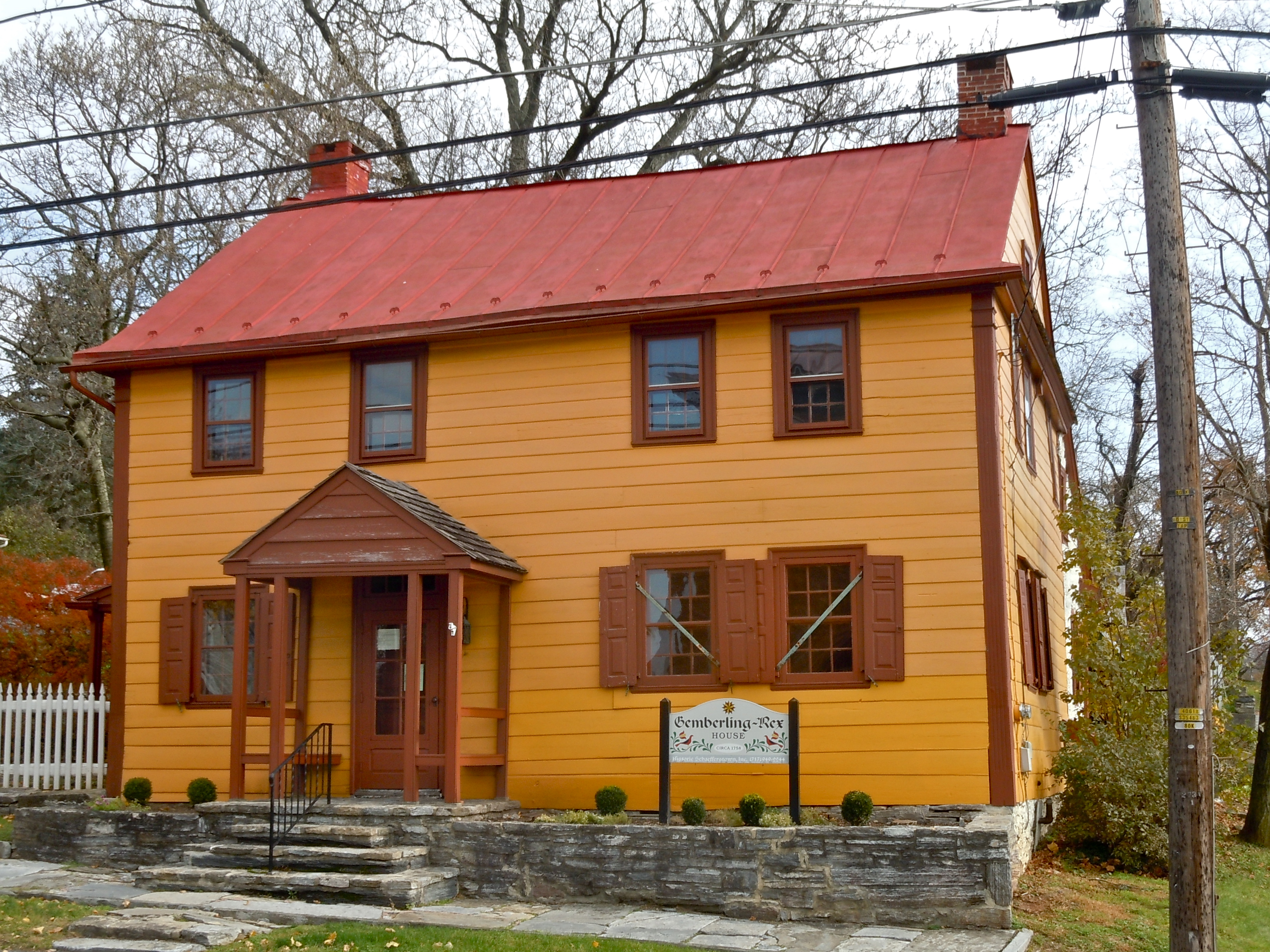 Rex House on the NRHP since August 11, 1980. On North Market Street in Schaefferstown, Heidelberg Township, Lebanon County, Pennsylvania